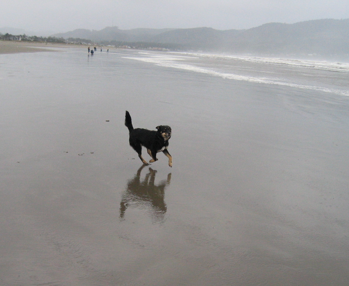 Agate Beach, Oregon shore, just off U.S. Route 101 in Oregon.